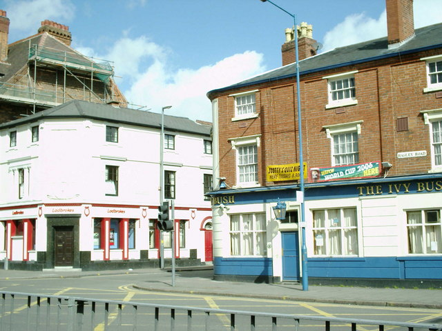 The Ivy Bush pub At the junction of Hagley Rd/Monument Rd.